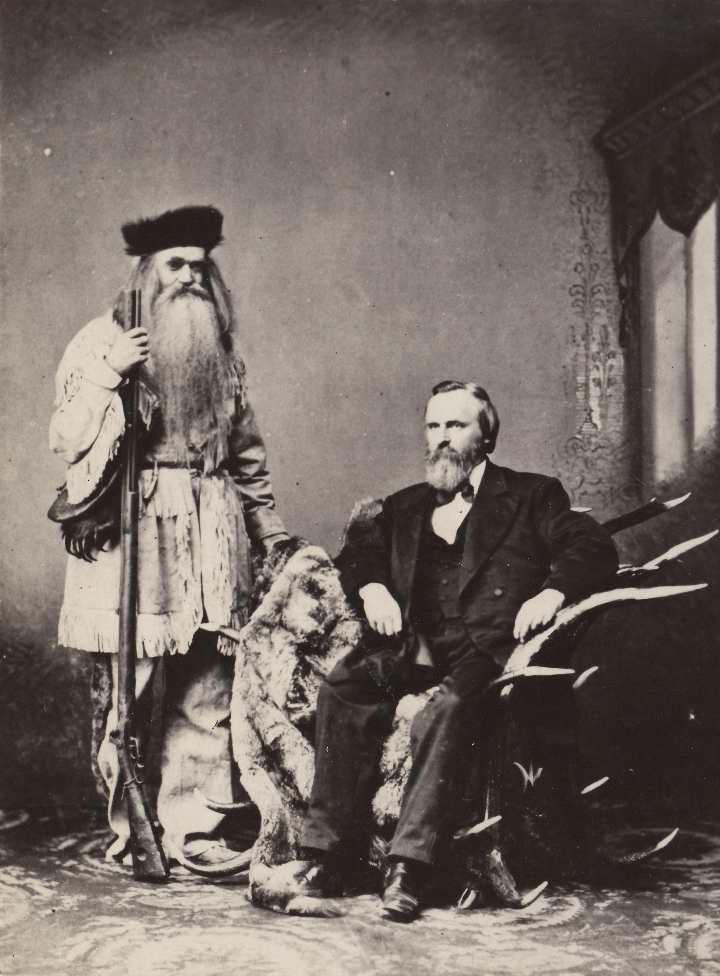 Governor of Ohio and Presidential Candidate Rutherford B. Hayes and "mountain man" Seth Kinman on September 18, 1876 when Kinman presented Hayes one of his famous elkhorn chairs. Chair is now in the Hayes Library in Ohio. Kinman sold copies of the photo.